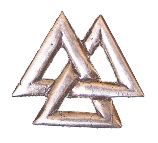 Metallic style Valknut on white background.